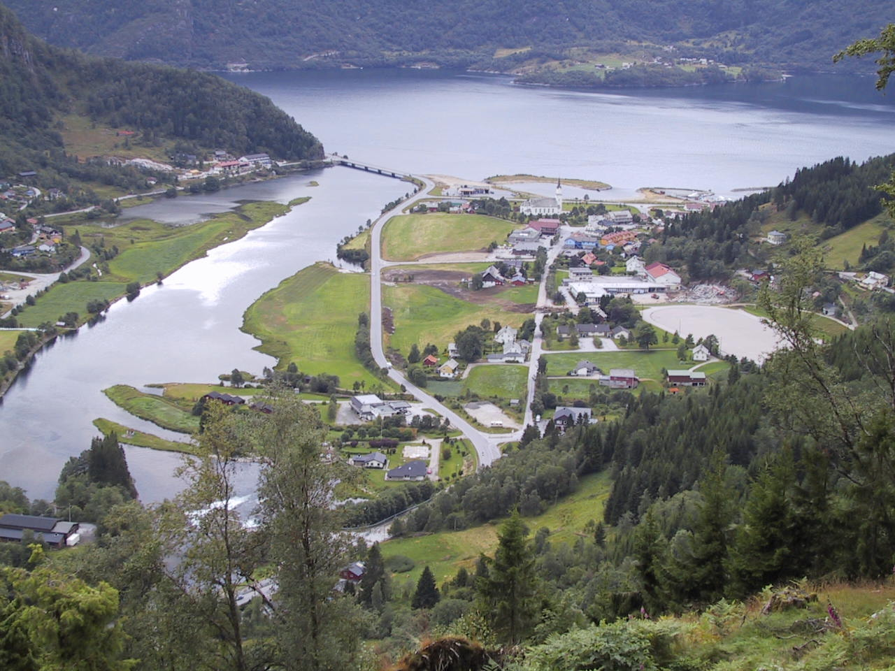 Naustdal, Norway Date: 2000